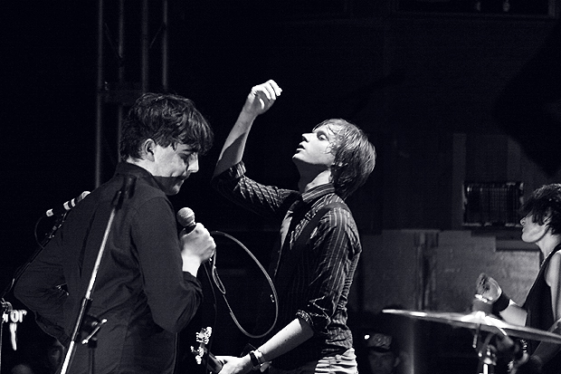 British indie-rock band Art Brut Venue: Troubadour